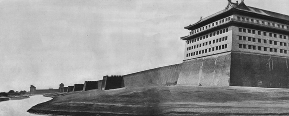 "Anting Gate," in the city wall of Beijing, photo taken by Felice Beato, 1860.